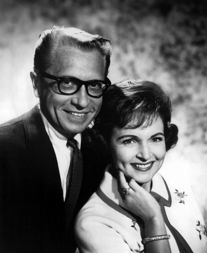 Photo of Allen Ludden and wife Betty White, who were appearing in a play in Ogunquit, Maine.